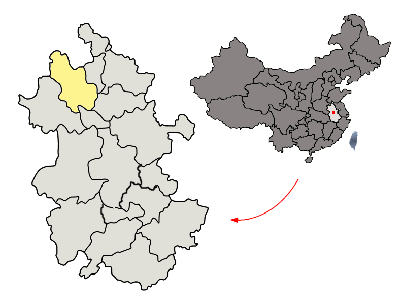 Location of Bozhou Prefecture (yellow) within Anhui Province of China Map drawn in december 2007 using various sources, mainly : Anhui Province administrative regions GIS data: 1:1M, County level, 1990 Anhui Counties map from